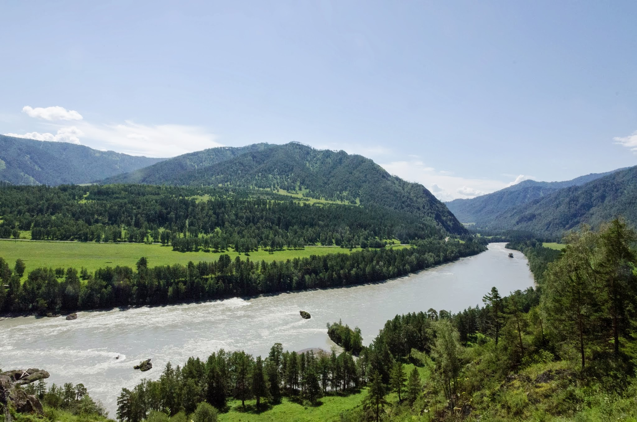 Chemalsky District, Altai Republic, Russia